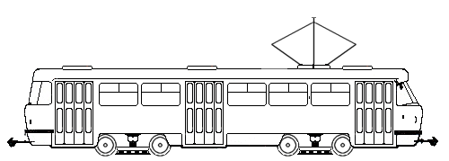 A single tram